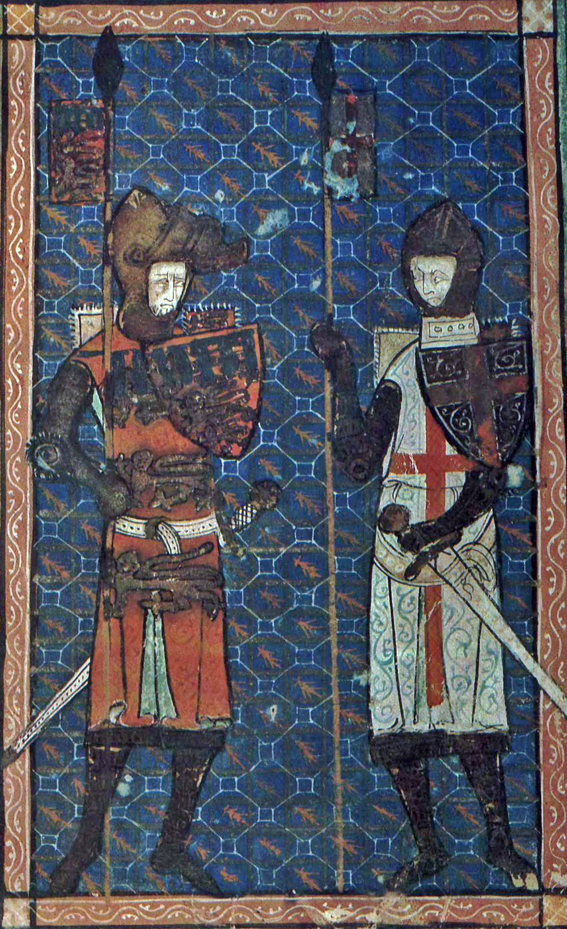 Miniature of an earl of Lancaster (possibly Edmund Crouchback) with St. George from a medieval manuscript (Oxford, Bodleian Library, MS Douce 231)[1]